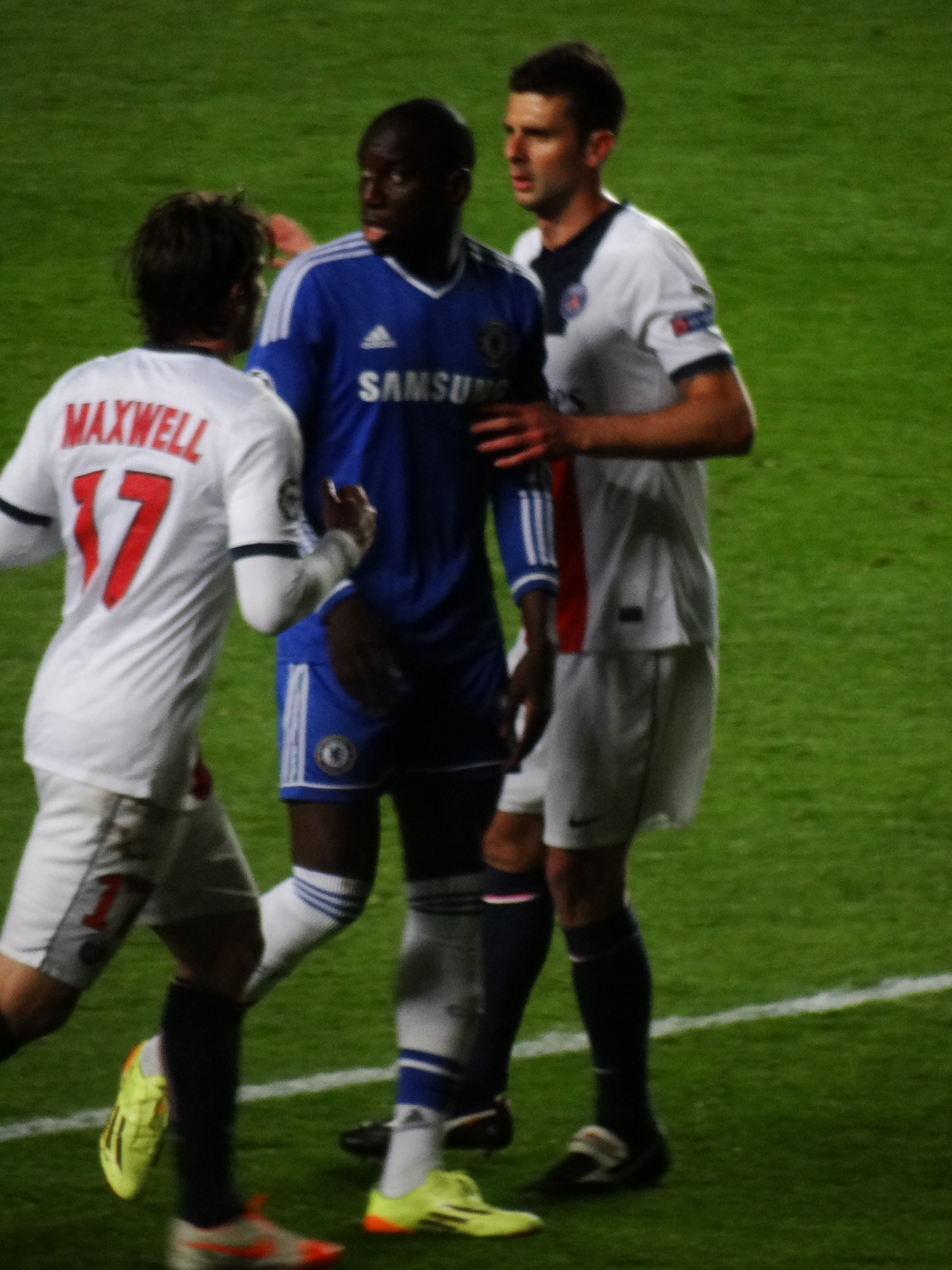 Chelsea FC v Paris Saint-Germain, 8 April 2014, Stamford Bridge, London.